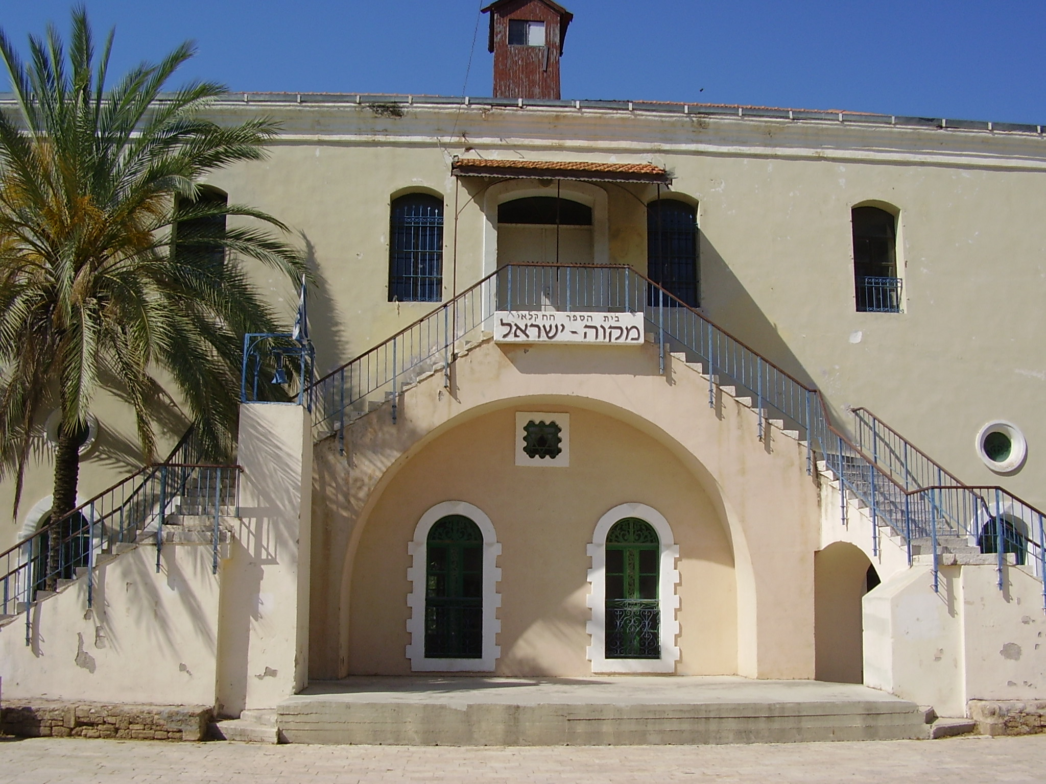 Mikveh Israel